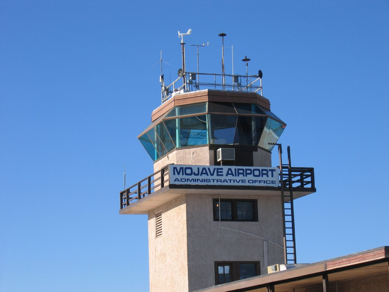 The tower at Mojave Airport, California